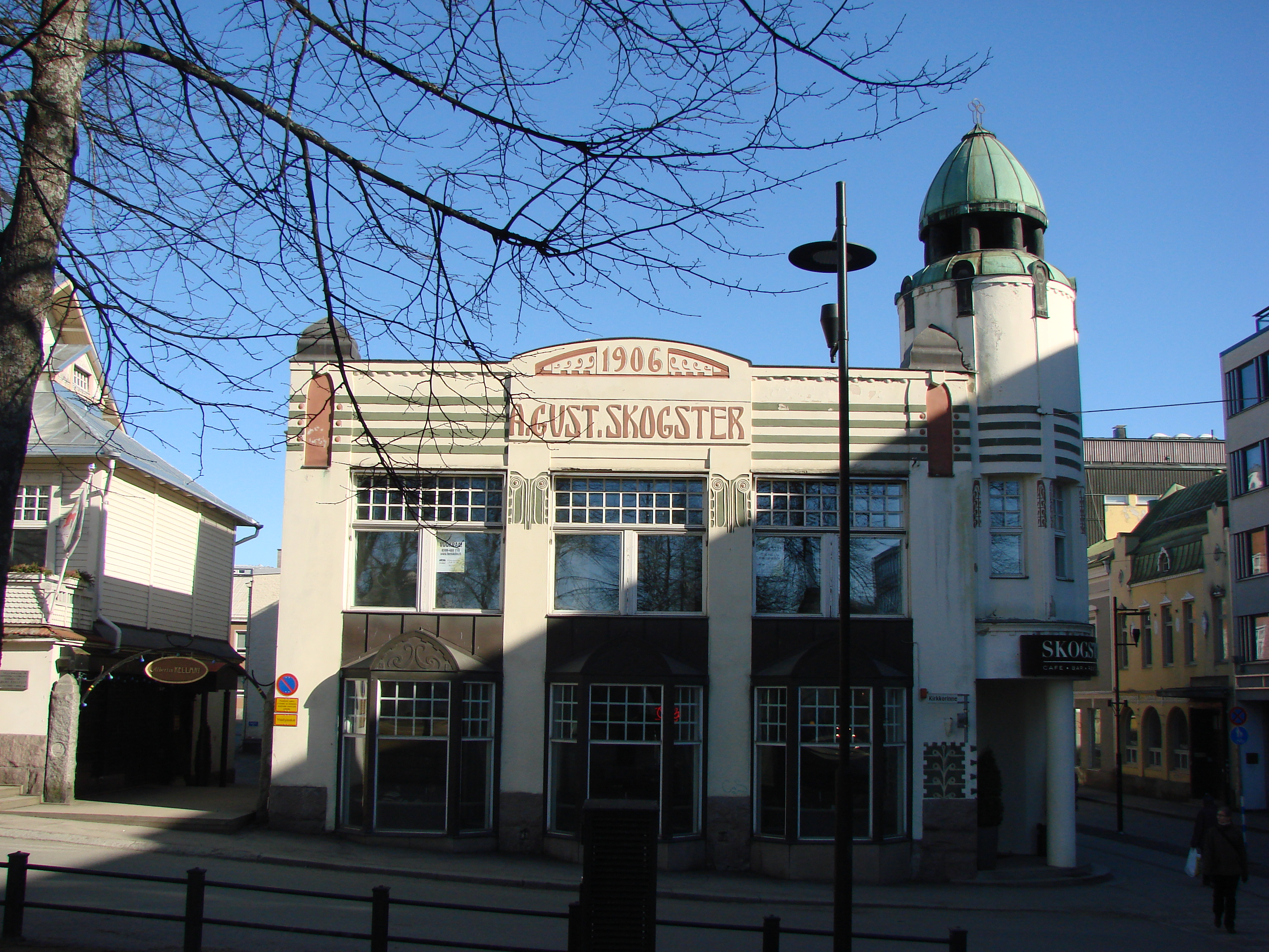 Skogster department store, Hämeenlinna, Finland.